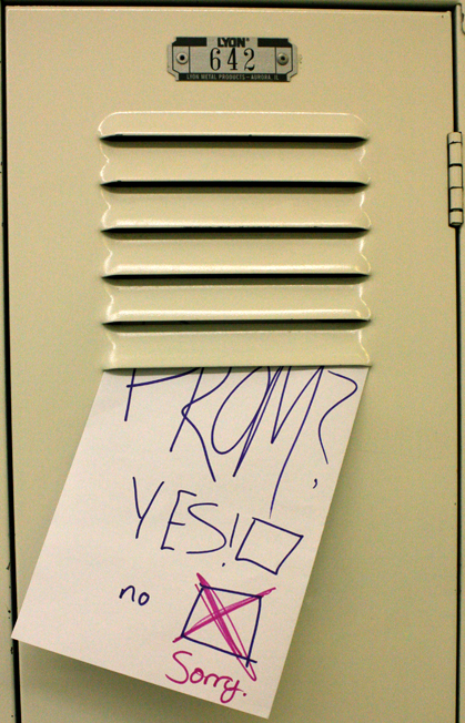 Rejection